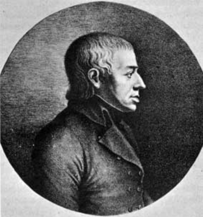 Ulrich Schiegg (1752-1810), german scientist